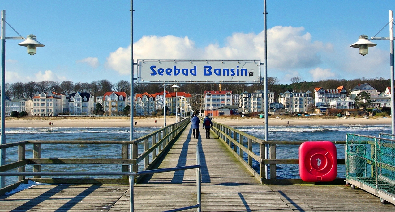 Pier in Bansin (Island of Usedom), view towards the beach promenade